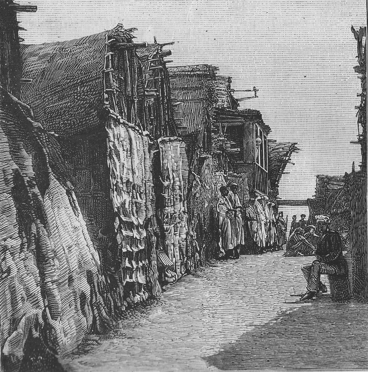 A street in Berbera during the late 19th century - One of three engravings colelctively titled “Territory Recently Occupied by Our Troops in East Africa”